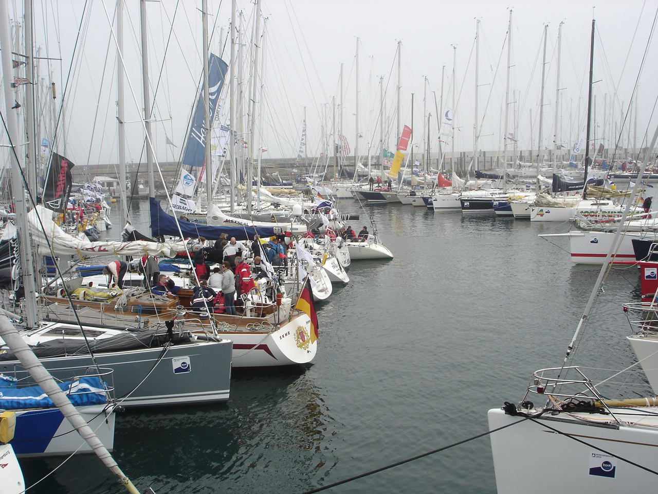 sailing yachts (competitors) for the "North Sea Week" (Nordseewoche) in the Heligoland harbour